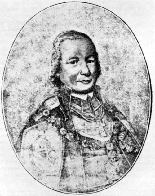 Antin Angelovych, Metropolitan of Lviv